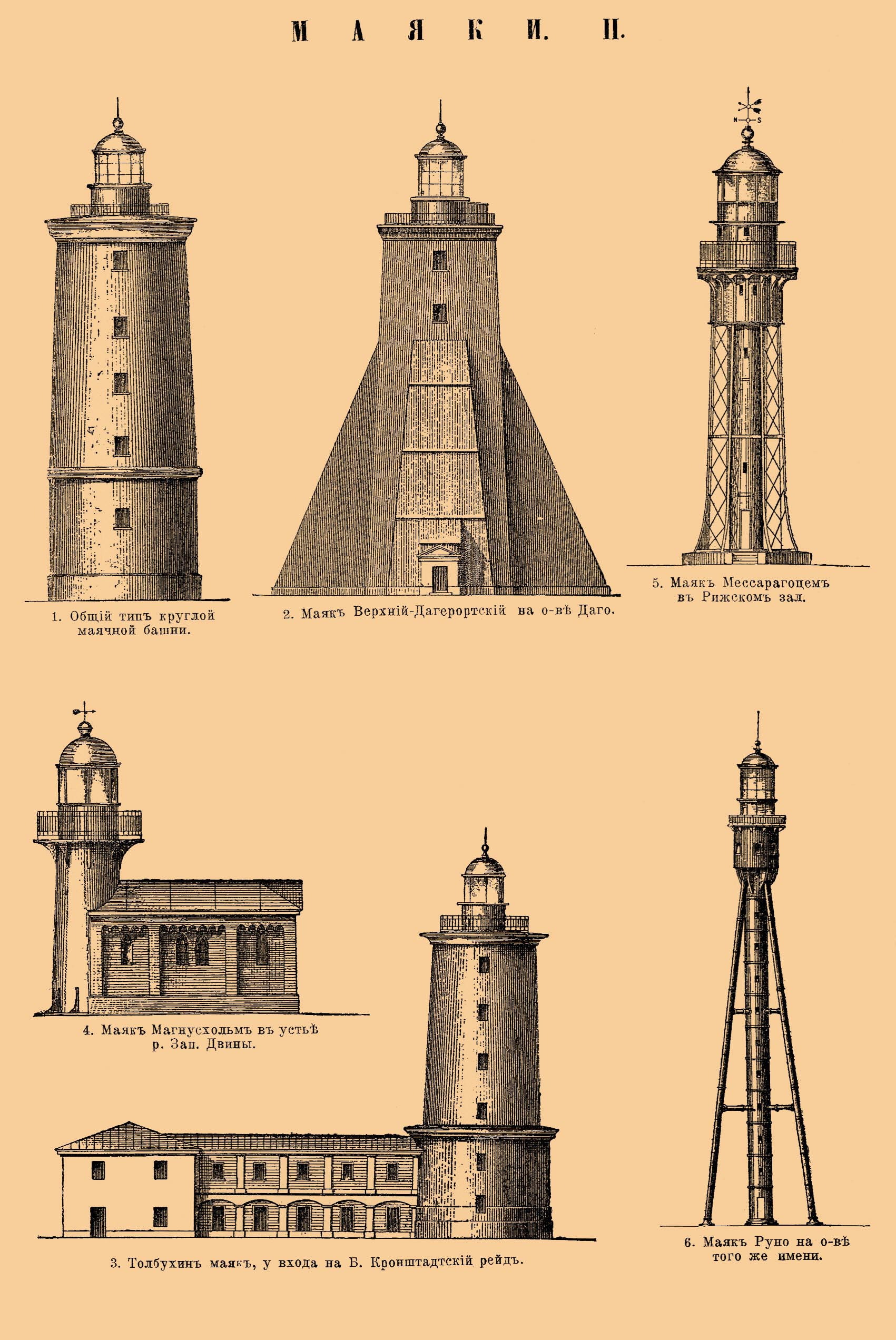 Illustration from Brockhaus and Efron Encyclopedic Dictionary (1890—1907)